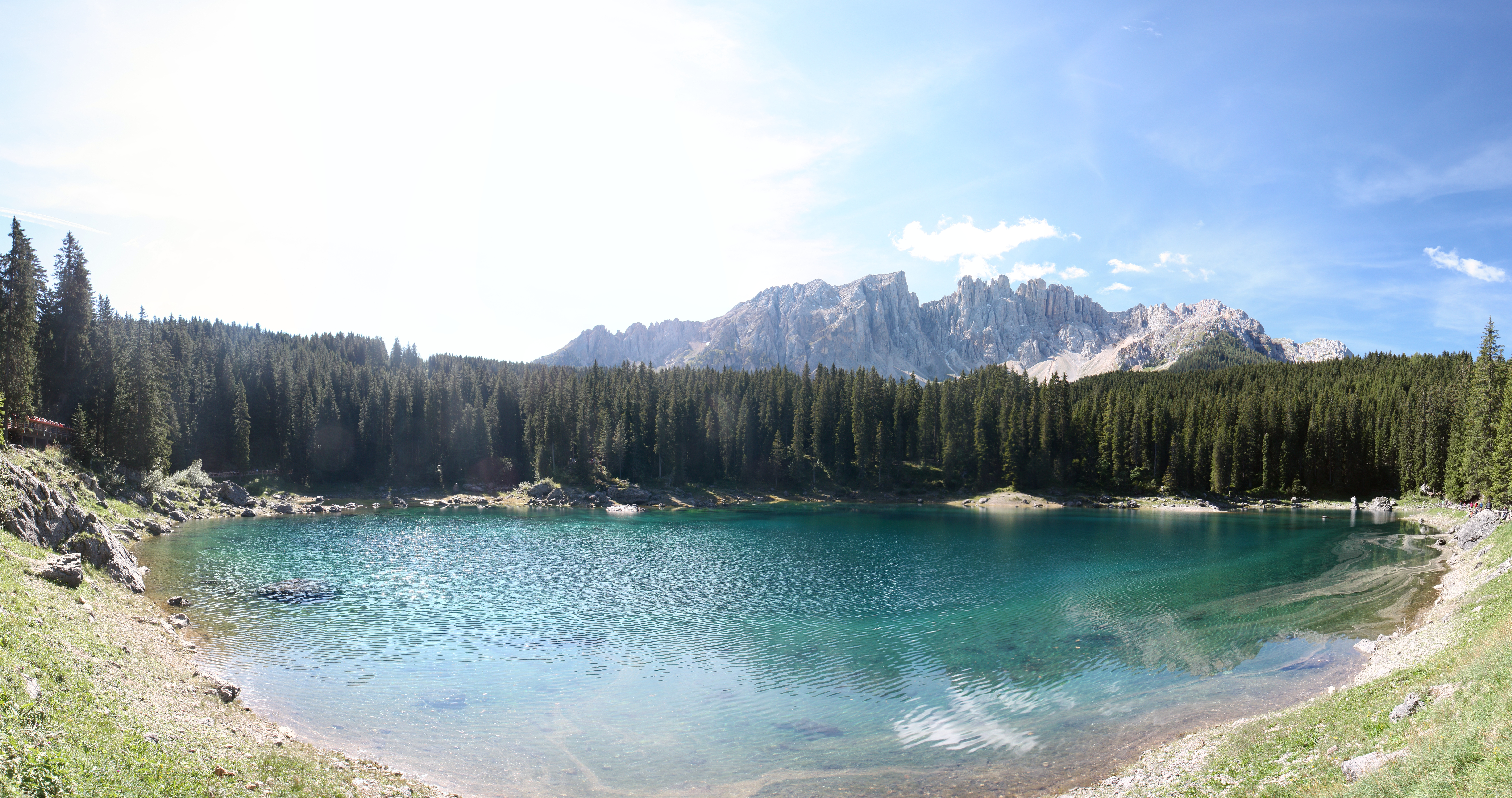 Karersee panorama, Latemar mountain, 2011